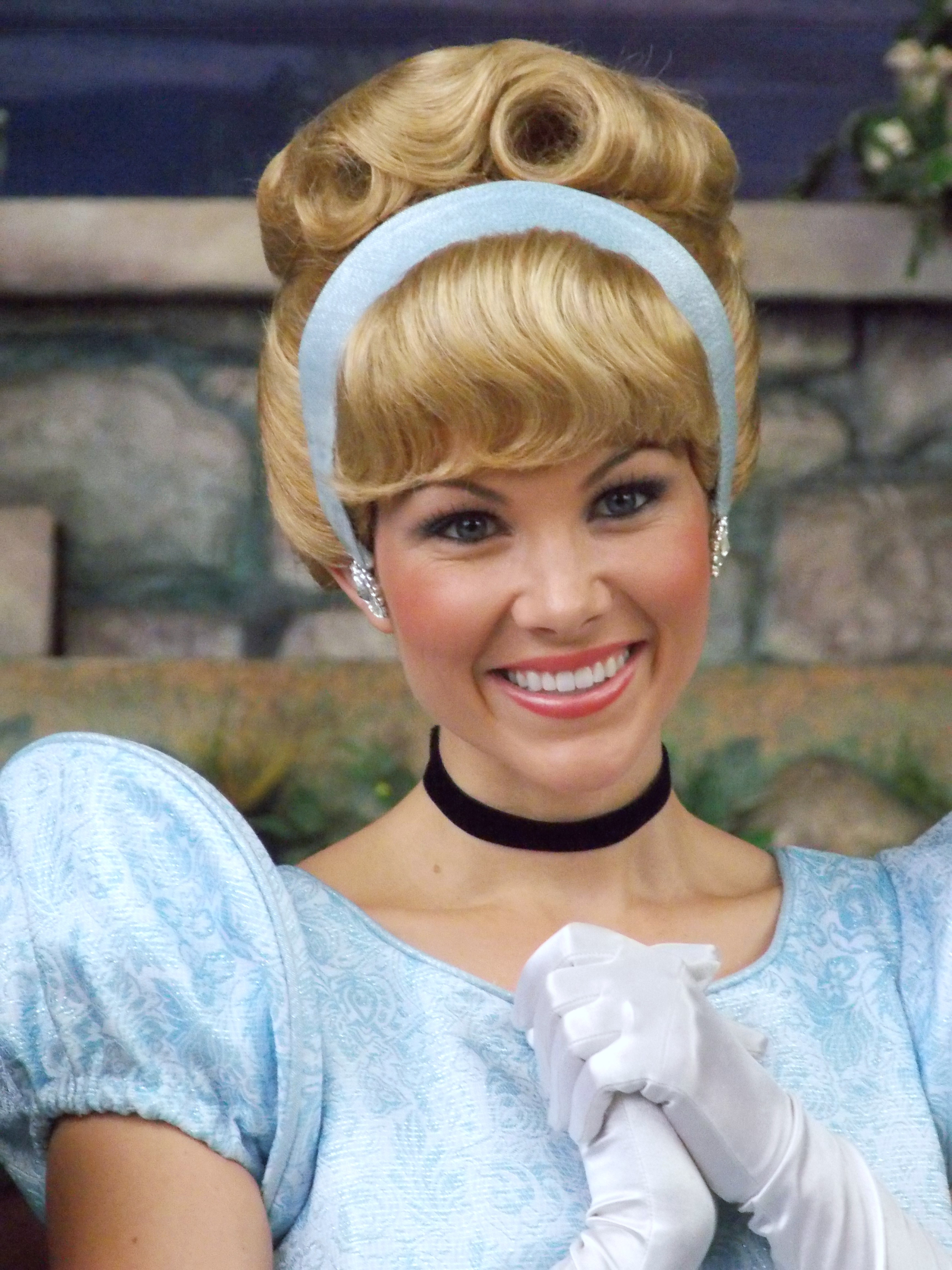 Actress portraying Cinderella at Disneyland California, July 17, 2012.